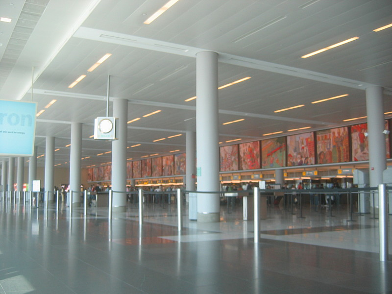 Passport control at JFK International Airport in New York.